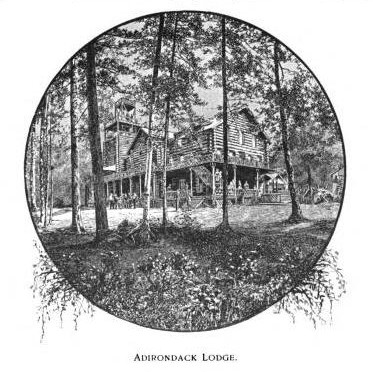 S R Stoddard photograph in Balsam Boughs by Archibald Campbell Knowles